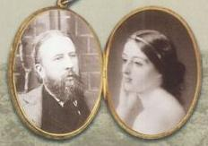 Spencer Cavendish, 8. Duke of Devonshire (1833–1908) and his wife Louisa Frederica Augusta von Alten, widow of the late William Drogo Montagu, 7th Duke of Manchester.